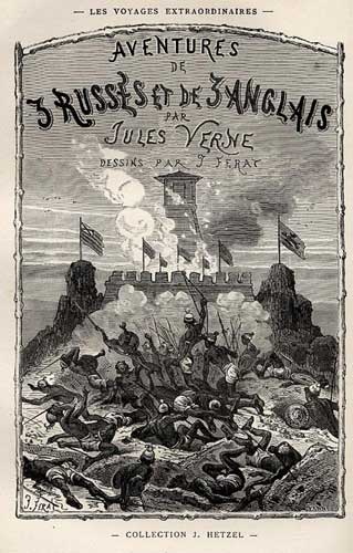 Ilustration from Julese Férat from French edition of novel by J. Verne "The Adventures of Three Englishmen and Three Russians in South Africa".